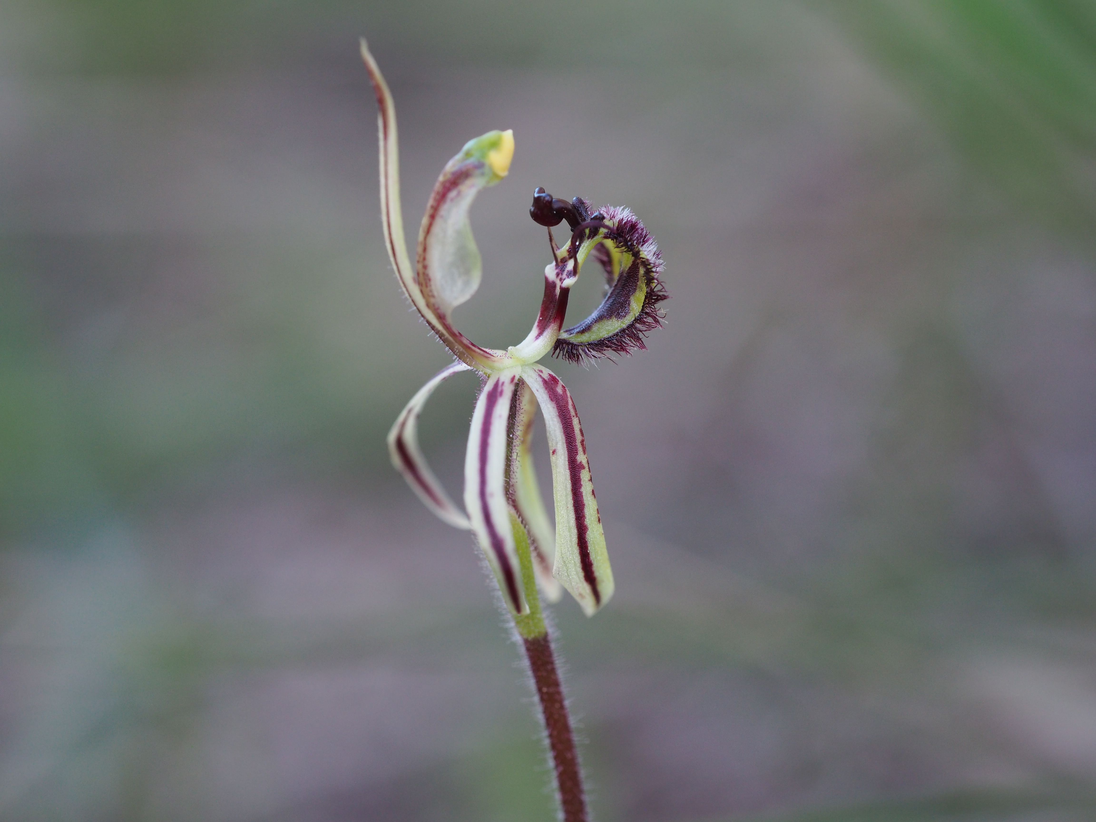 Caladenia barbarossa in the Dardadine Nature Reserve near Williams, Western Australia